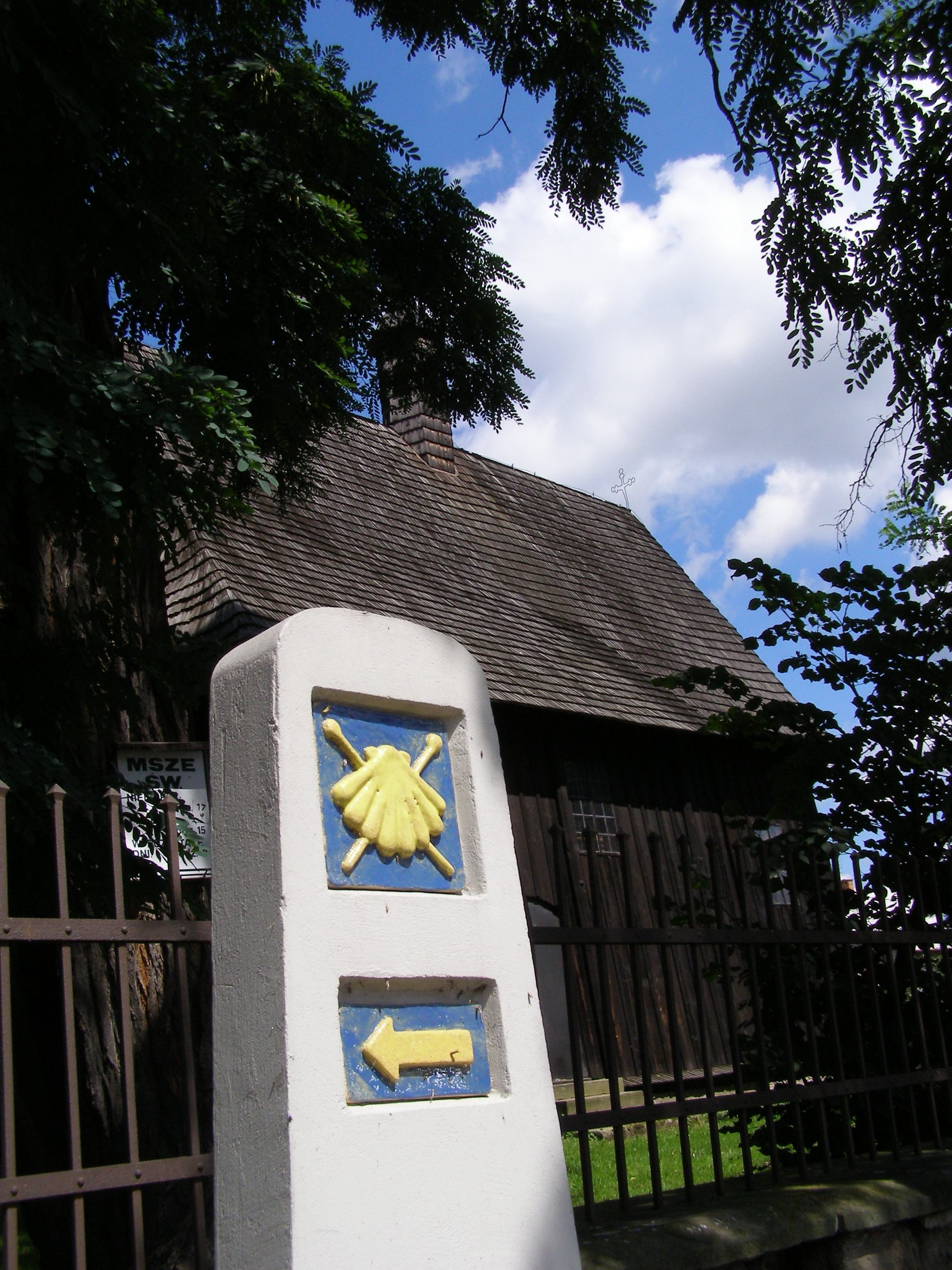 Church of St. Leonard in Wojnicz, sign of the Way of St. James